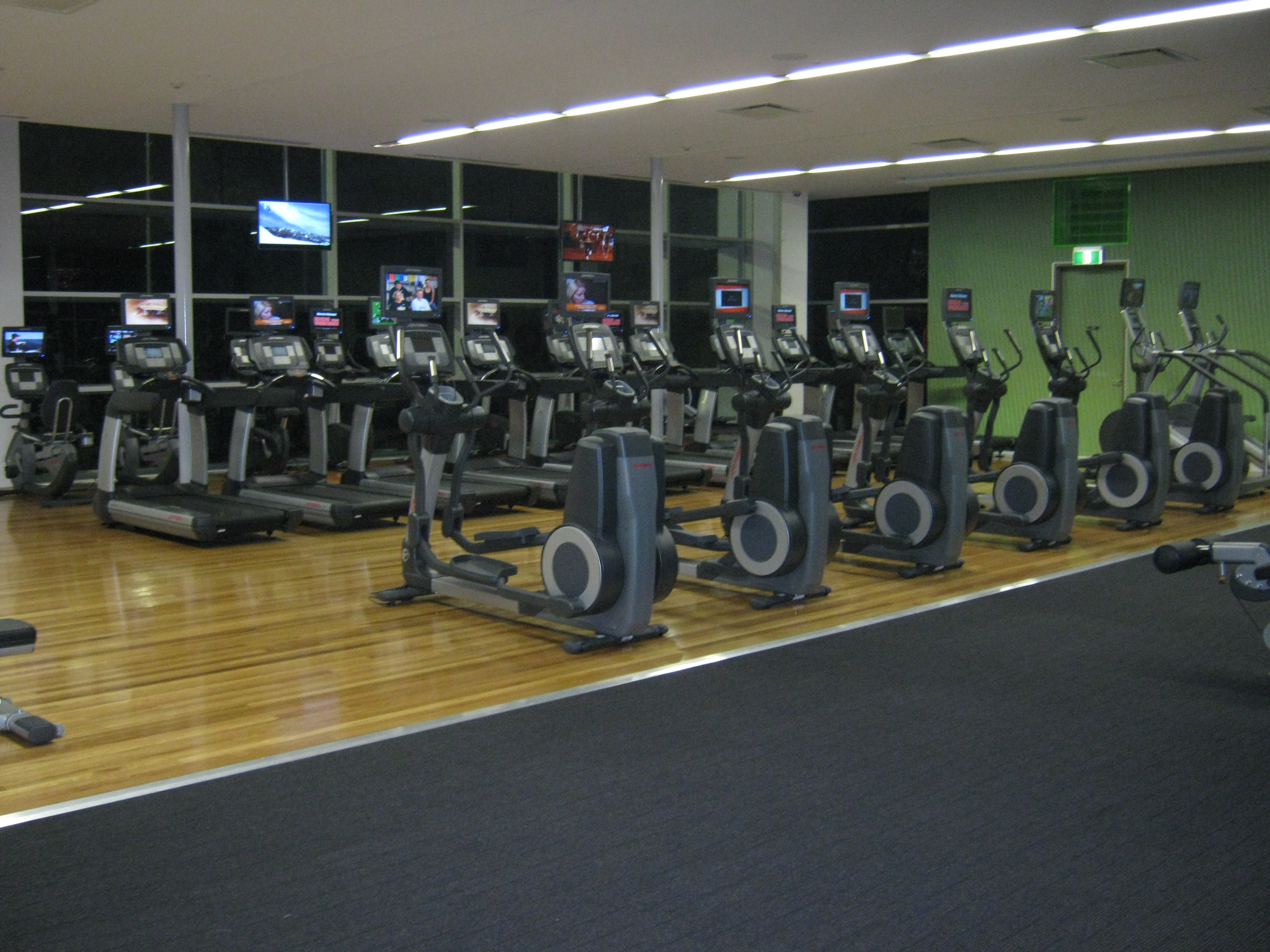 Connect Fitness Penrith Cardio Area. Located on the grounds of the University of Western Sydney, Kingswood Campus.